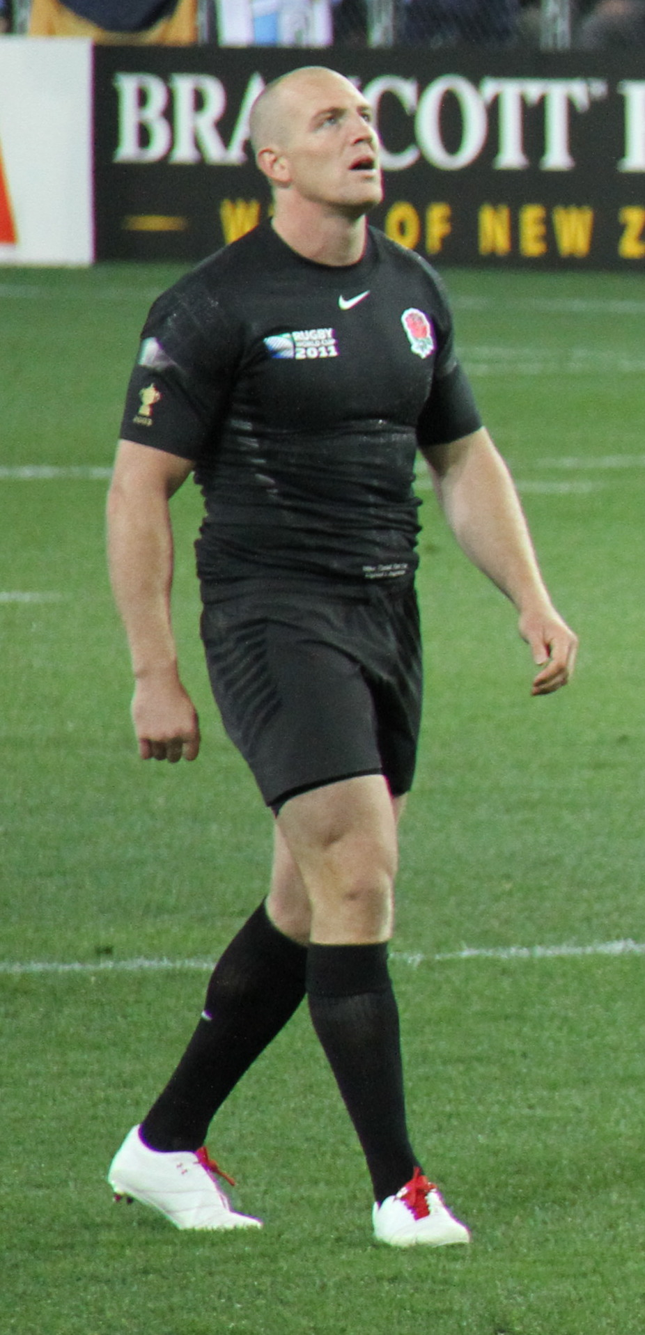 English rugby union player Mike Tindall during 2011 Rugby World Cup match against Argentina.